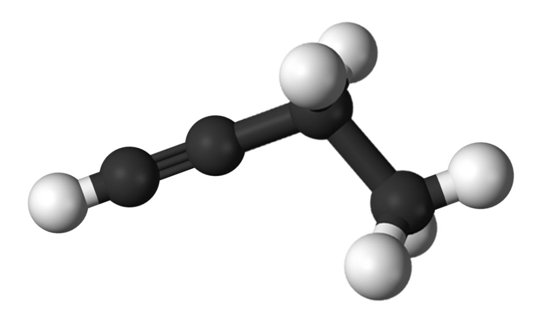 Butyne molecule model